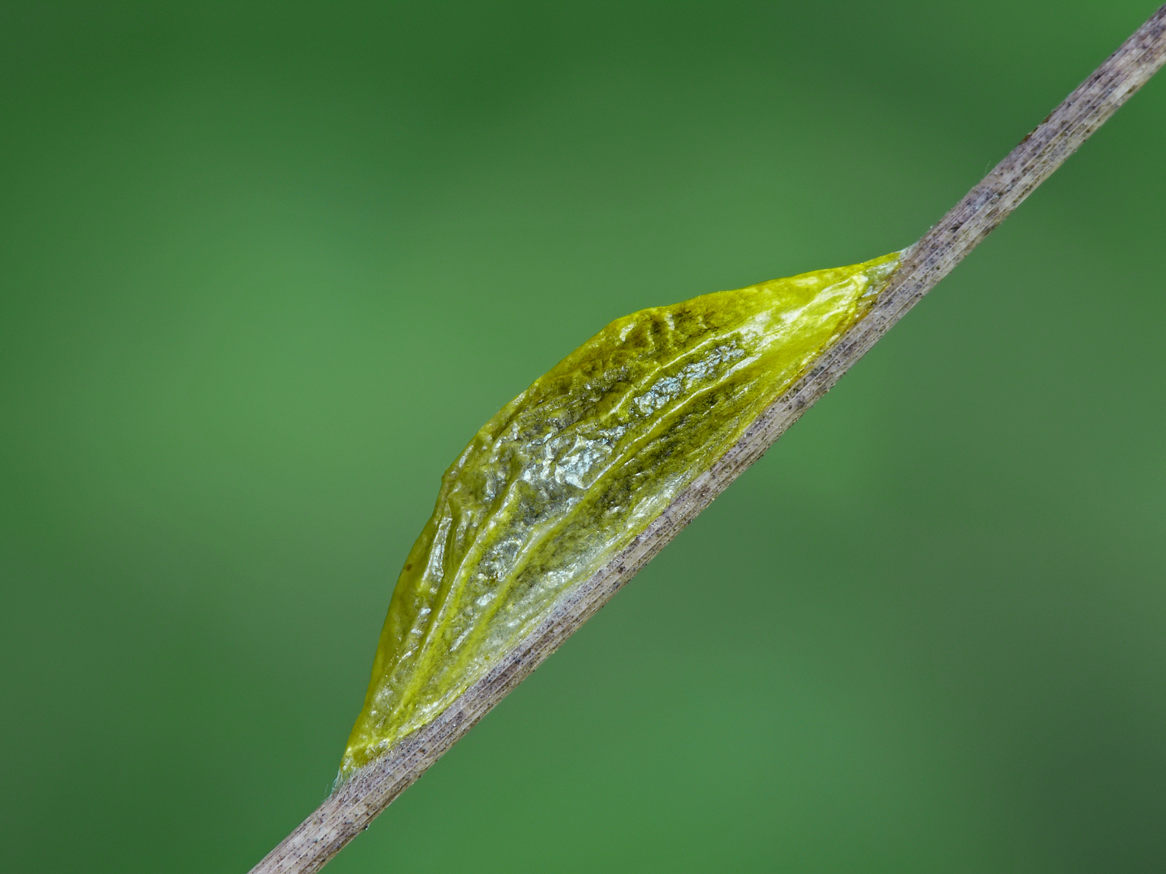 Pupa of Narrow-bordered Five-spot Burnet. Photo taken: Labanoras regional park, Lithuania.